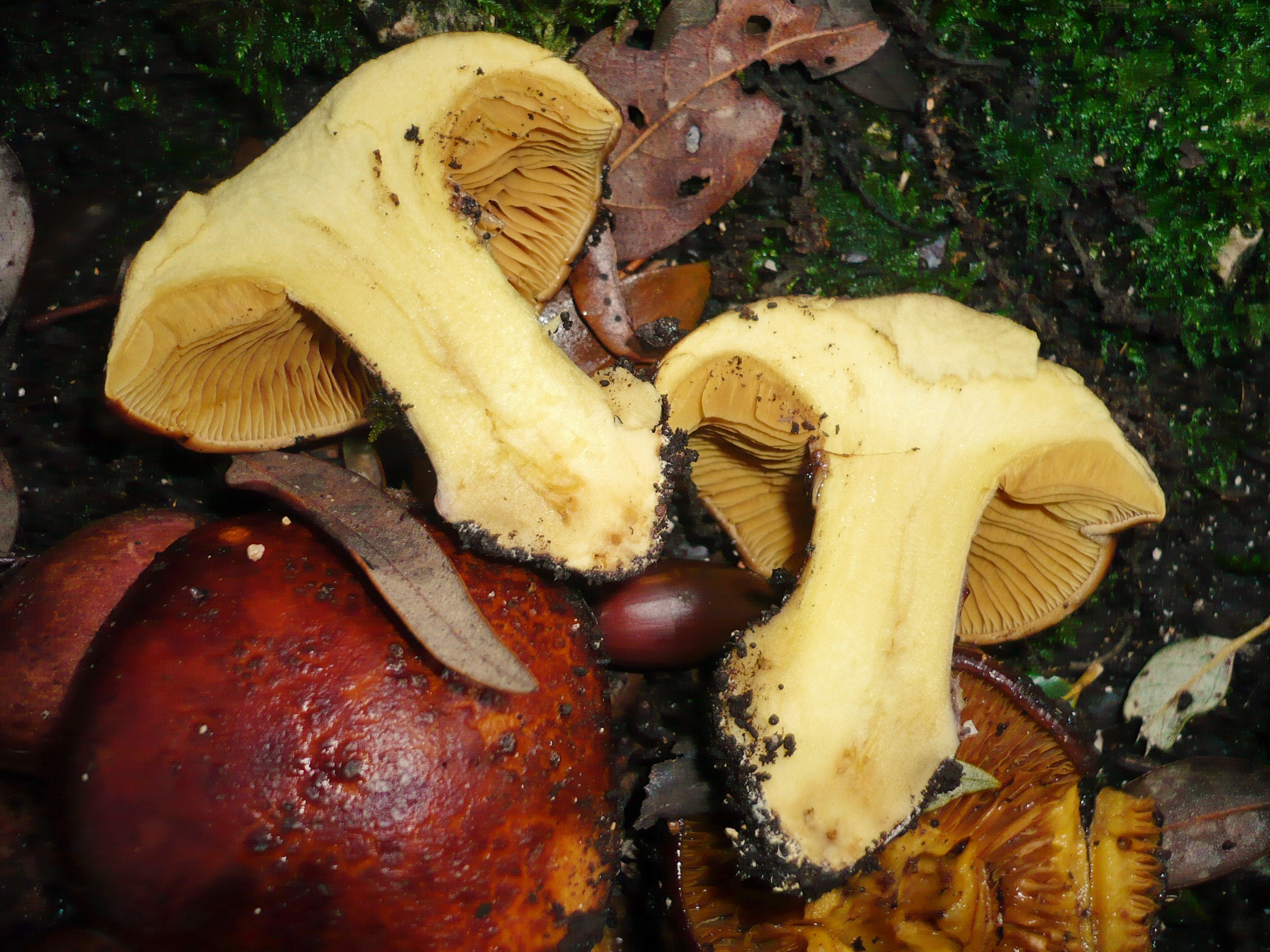 Cortinarius splendens Rob. Henry Image location: Monte Luco, Spoleto, Umbria, Italy also in WU Recognized by sight For more information about this, see the observation page at Mushroom Observer.